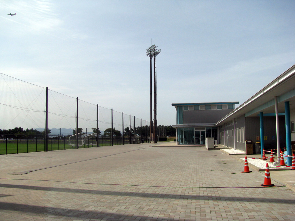 Gannosu Recreation Center